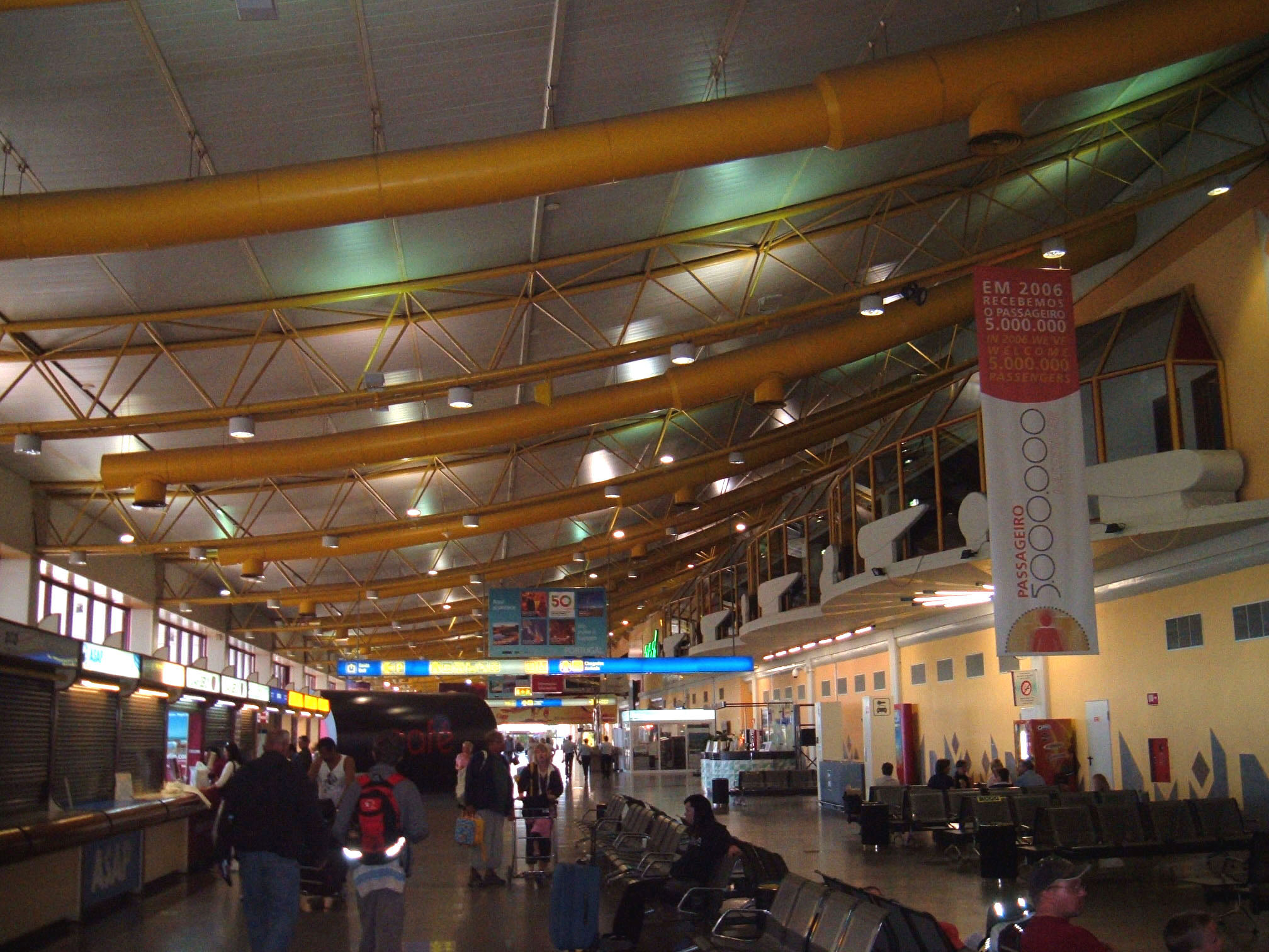 Faro airport check-in area.